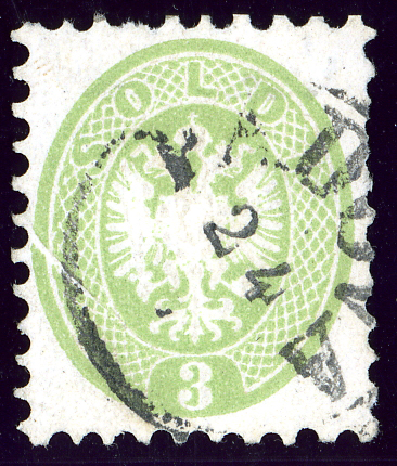 Stamp of Lombardy-Venetia, 3 soldi issue 1864, cancelled at PADOVA (Veneto Region). Michel 20.